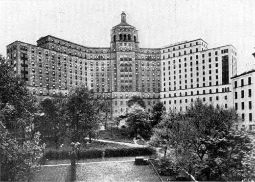 Eye and Ear, Presbyterian, and Women's Hospitals circa 1943, part of the University of Pittsburgh Medical Center.